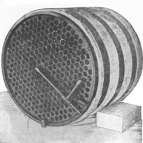 Stanley steam car boiler (Rankin Kennedy, Modern Engines, Vol III).jpgFig. 207 Stanley Boiler